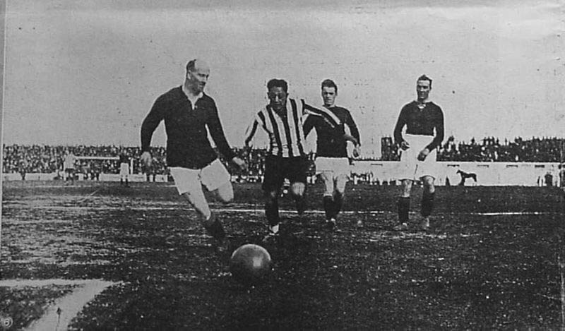 Argentina v. Plymouth Argyle, in Buenos Aires: English back Russell fights to cut off centre-forward Sosa.